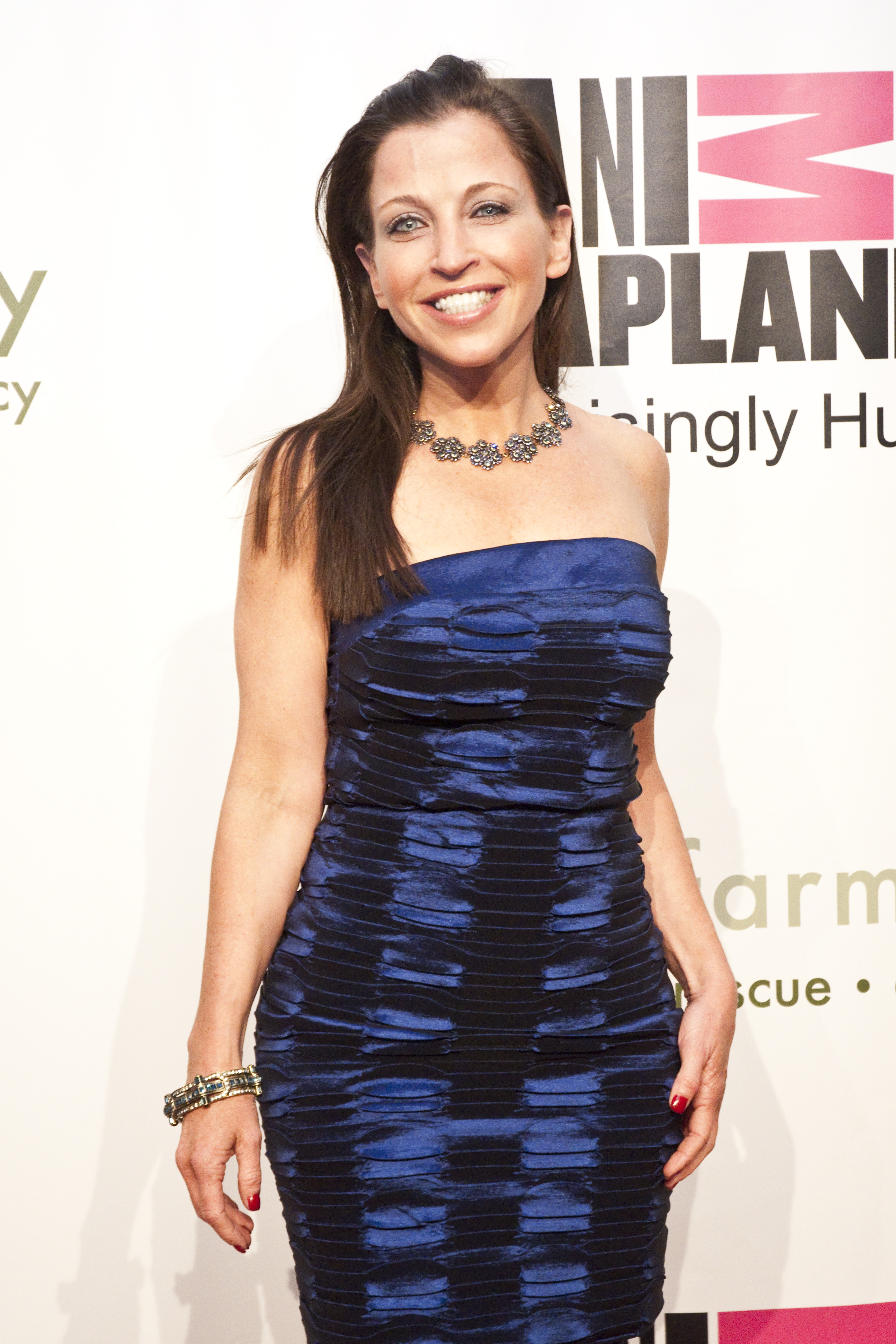 Wendy Diamond at the Farm Sanctuary 25th Anniversary Gala in New York City.